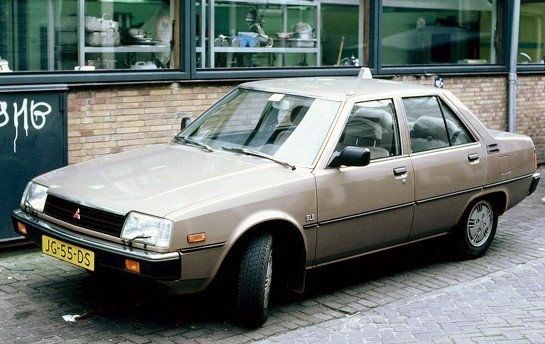 Mitsubishi Tredia in Utrecht